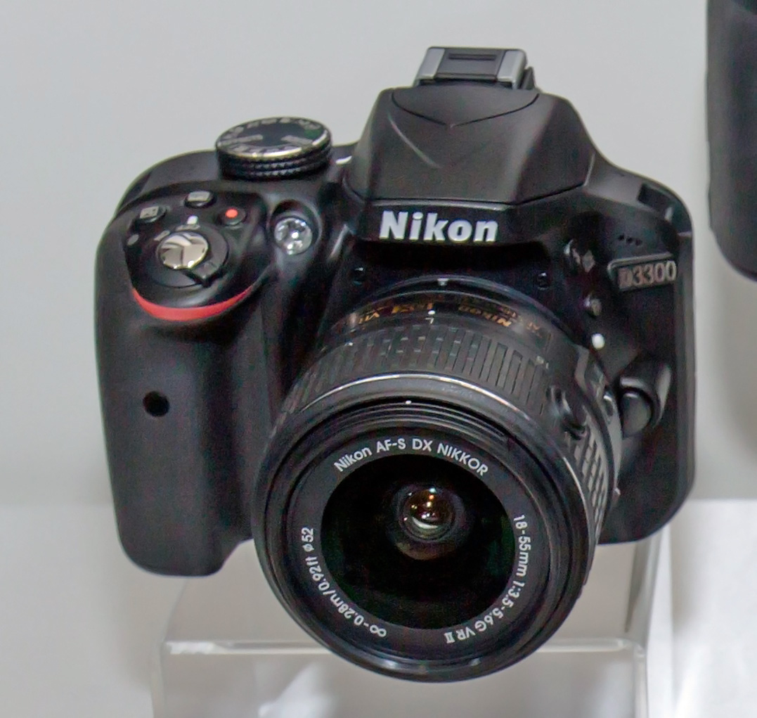 CP+ 2014: 2014 Nikon D3300